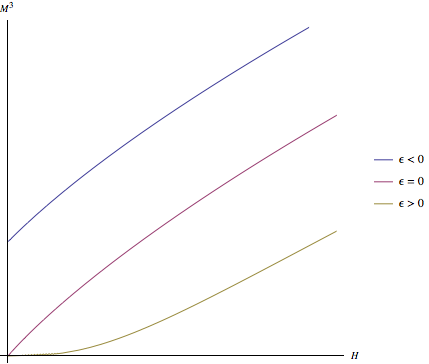 Arrott plot for ferromagnetic phase transition. The blue line, red and gold lines respectively correspond to temperatures above, at and below the phase transition.